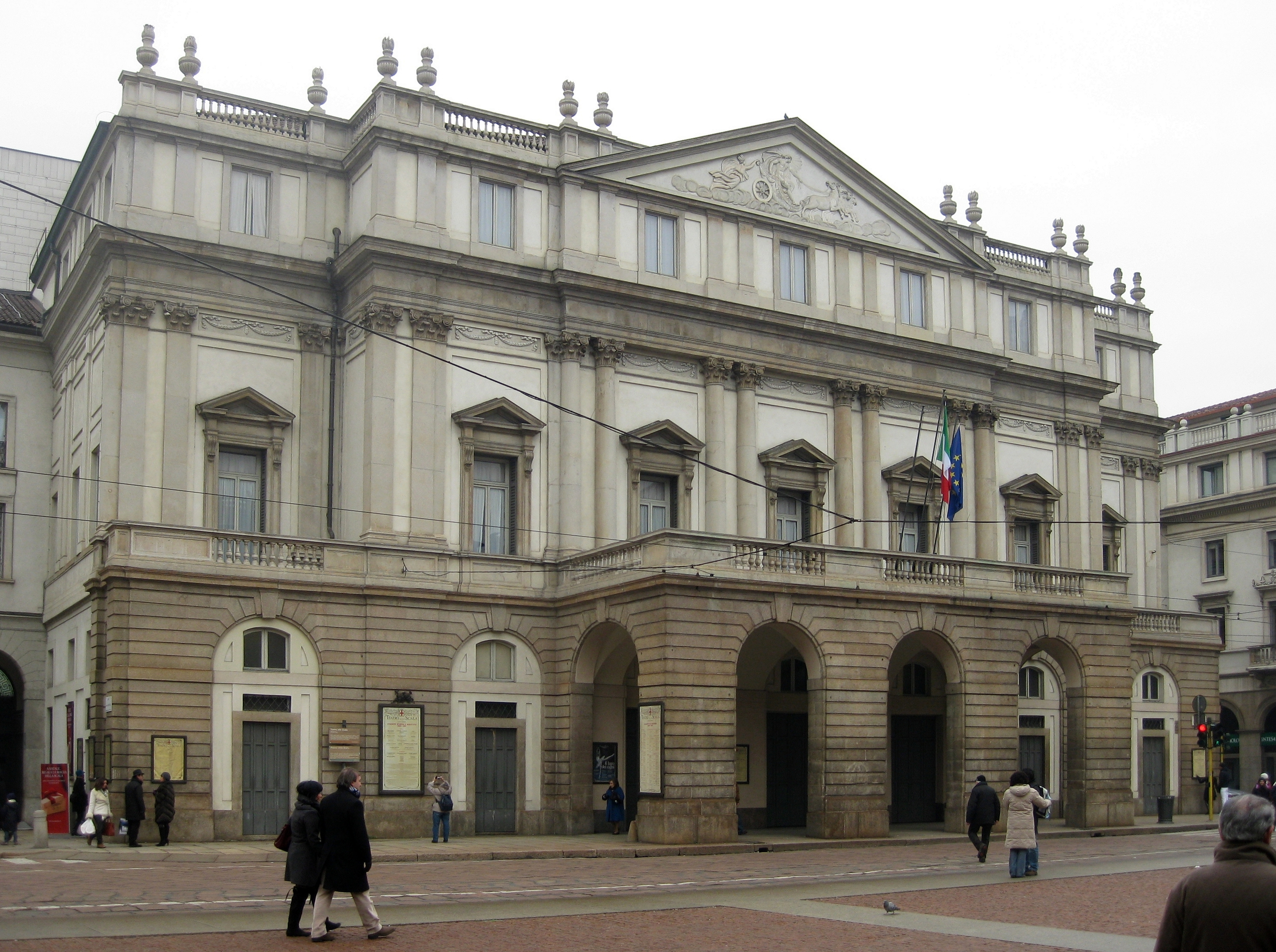 Milan, Italy: the "Teatro alla Scala" Opera house in "Piazza della Scala".